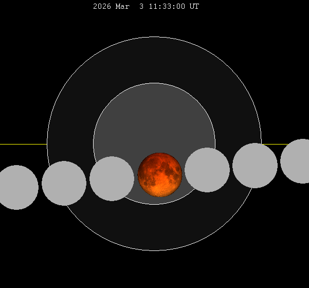 March 2026 lunar eclipse chart of moon's total lunar eclipse path through the earth's shadow. thumb